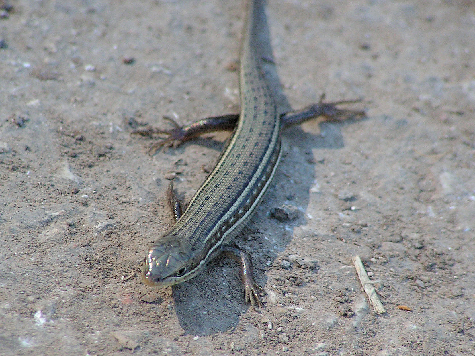 Bridled Mabuya. The photo was taken in northern Israel.